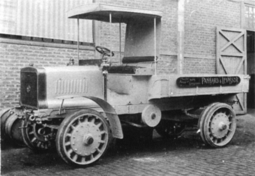 Prototype of the Panhard-Châtillon heavy artillery tractor. This vehicle had a Panhard&Levasseur sleeve-valve engine, all wheel drive, and solid tires.